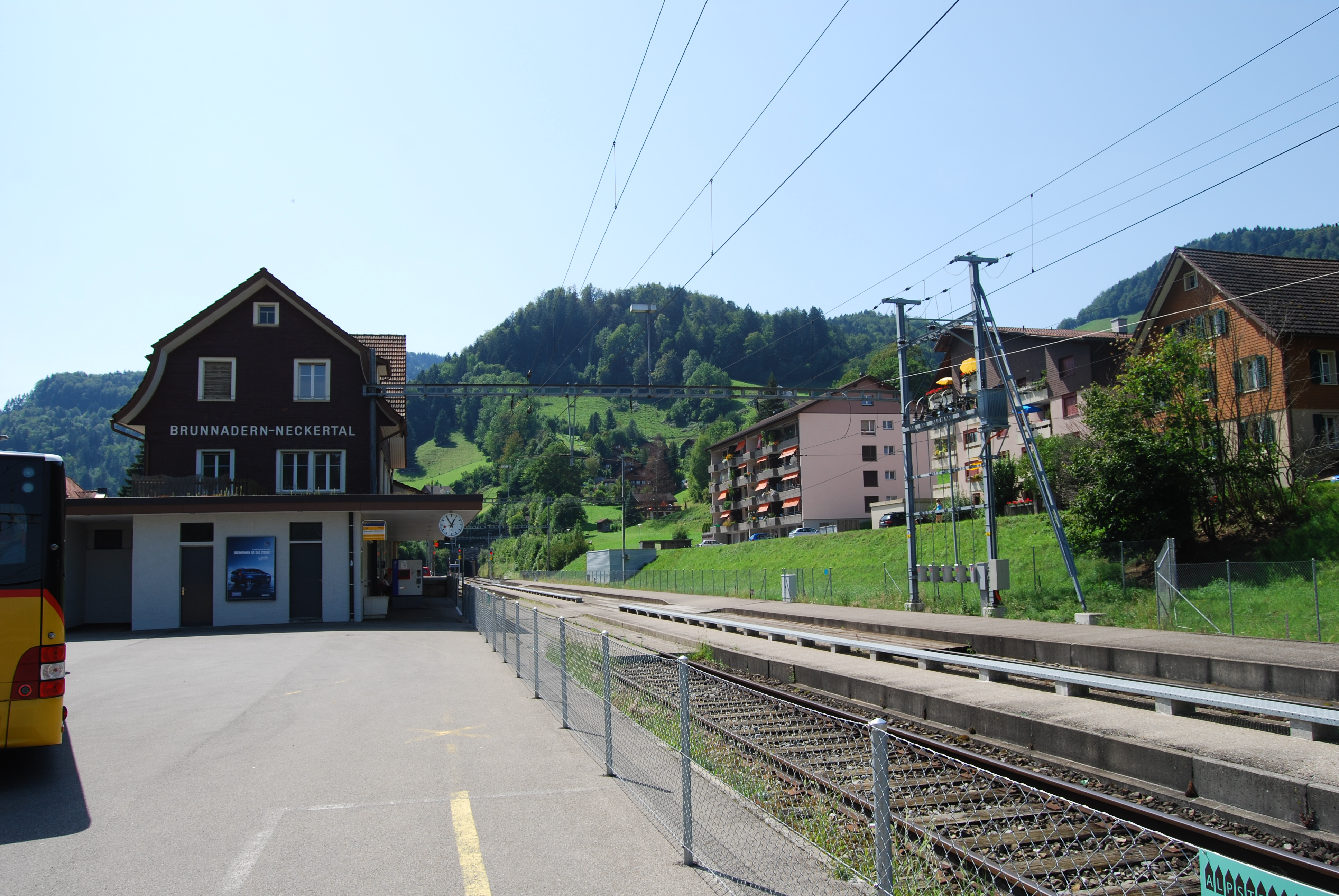 Train station of Brunnadern, municipality of Neckertal, canton of St. Gallen, Switzerland